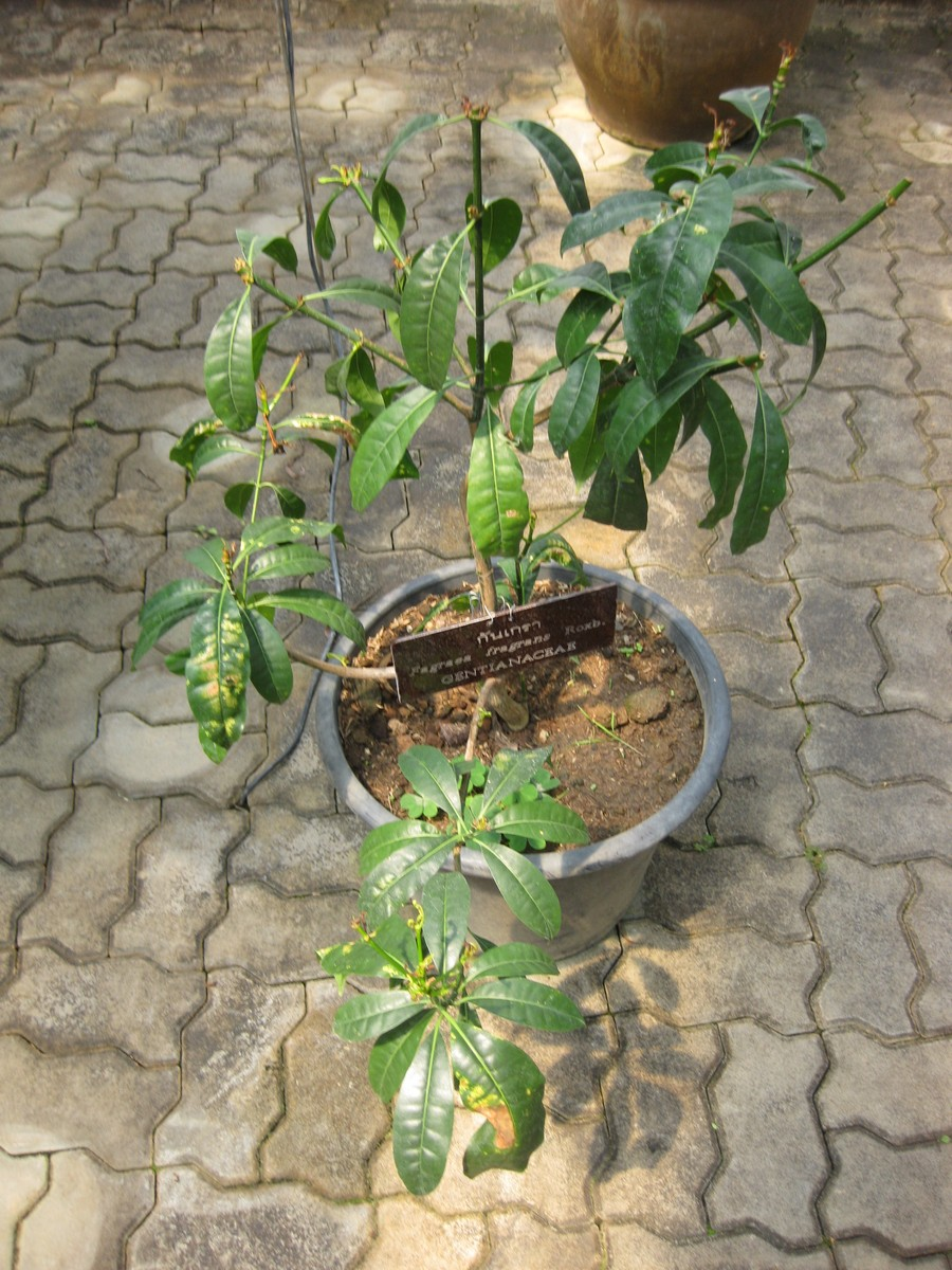 Fagraea fragrans Roxb. Photographed at the Queen Sirikit Botanic Garden (Chiang Mai Province, Thailand) in March